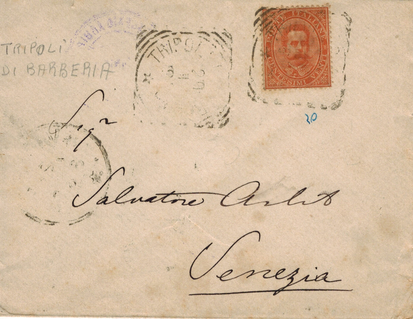 A postal cover from Tripoli PO to Venice franked with Italian stamp showing effigy of Umberto I within an oval, first series (Sassone 39b). A squared-circle postmark of Tripoli. A scan from personal collection of postal material.